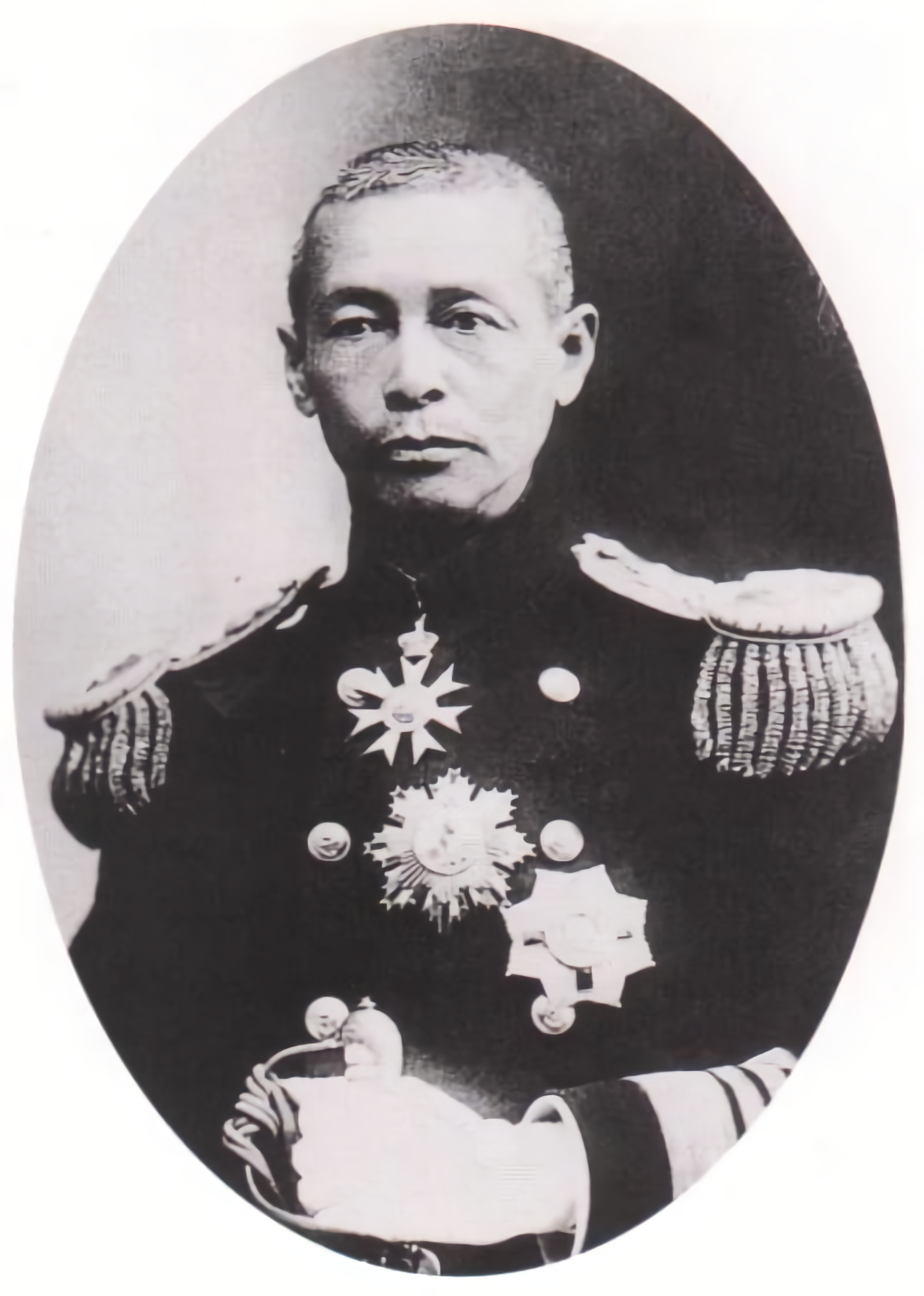 Portrait of Sa Zhenbing